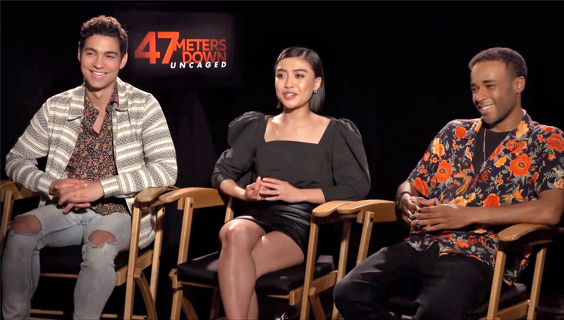 (Left to right) Actors Davi Santos, Brianne Tju, Khylin Rambo interviewed about their film "47 Meters Down: Uncaged" by Dulce Osuna 47 Meters Down: Uncaged 🦈 Brianne Tju & cast talk pros and cons of filming underwater with sharks by Dulce Osuna